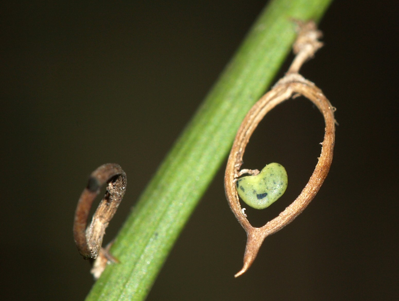 Carmichaelia arborea pod with seed, from Botanical Garden (Flora) of Cologne, Germany.